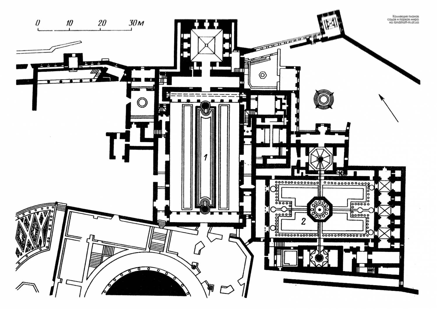 Court of the Myrtles 1. Palace of the Lions 2.